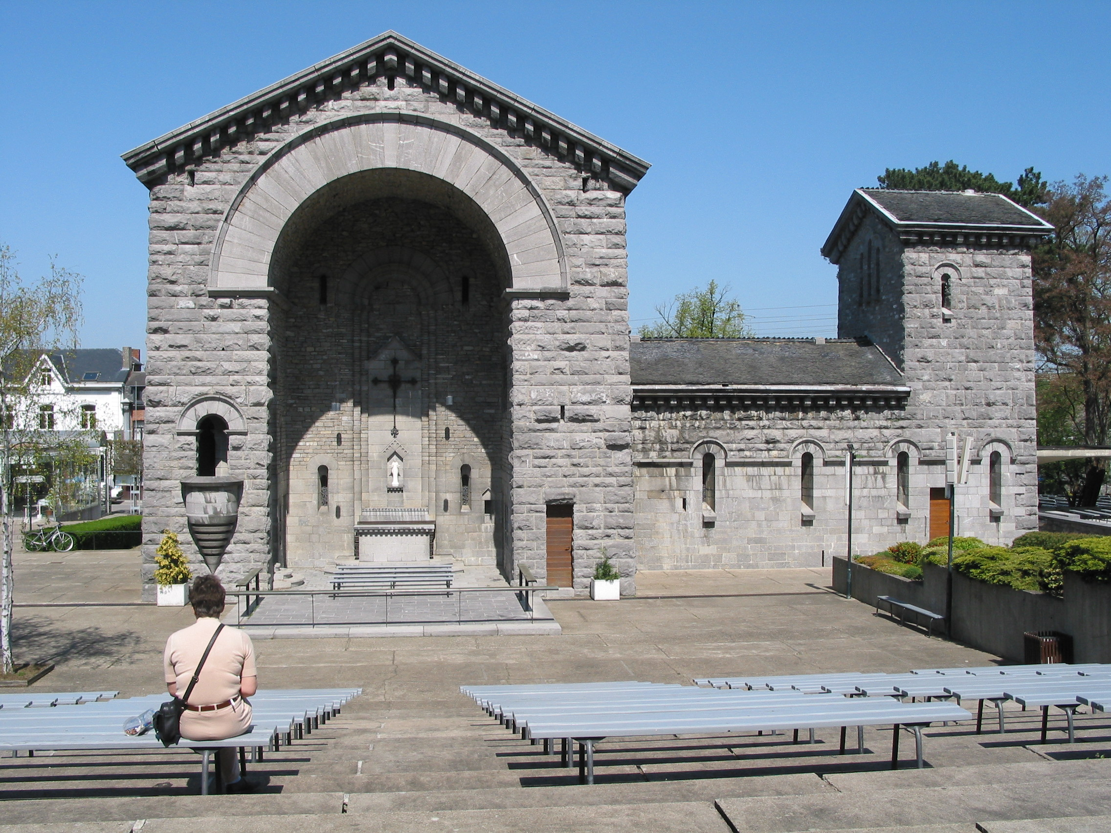 Beauraing (Belgium), the Lady chapel.